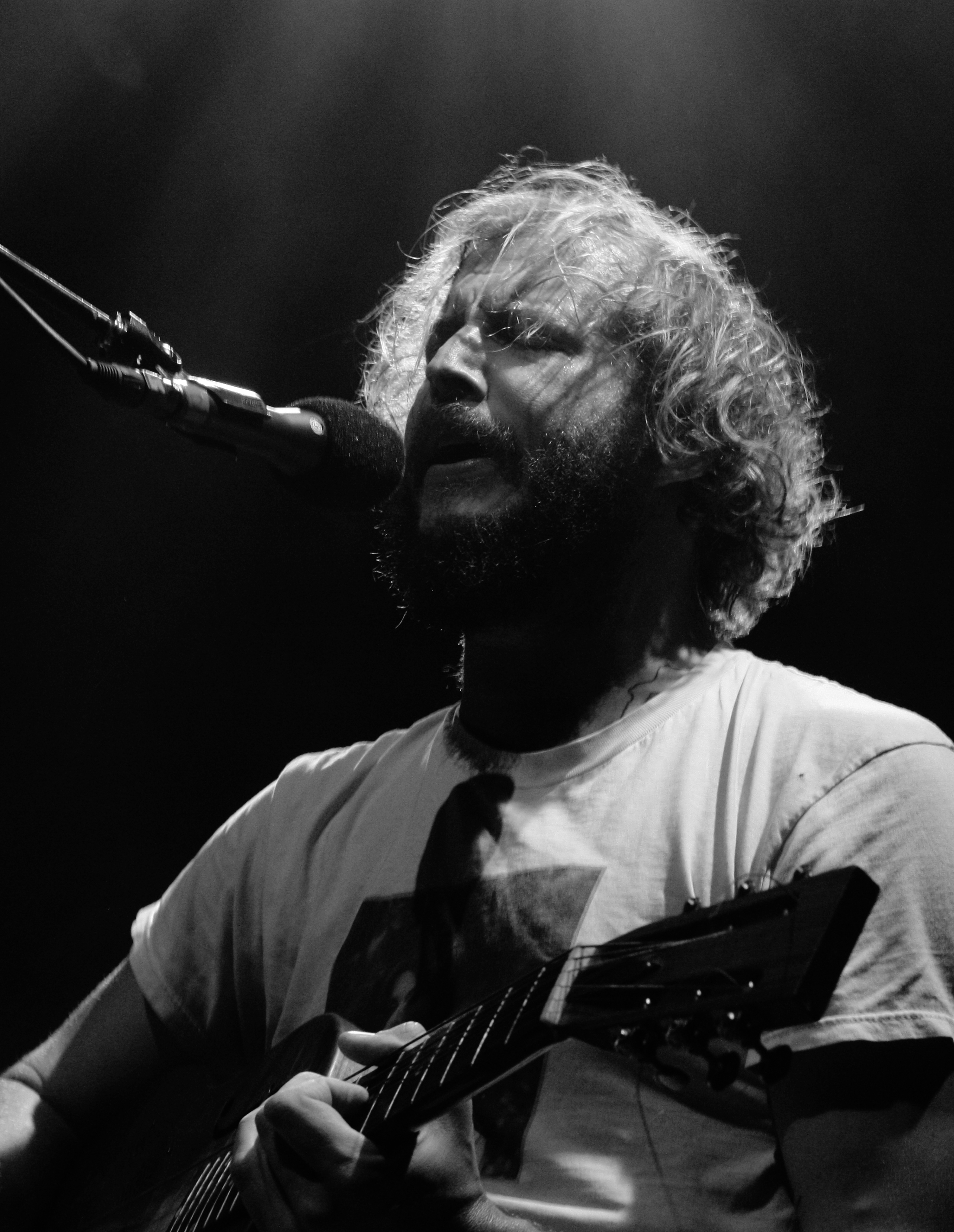 Bon Iver performing at The Fillmore